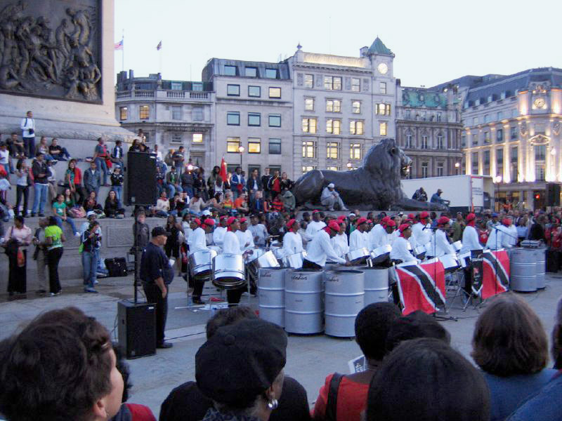 Exodus Steelband plays at Trafalgar Square. The artists are from Trinidad & Tobago.